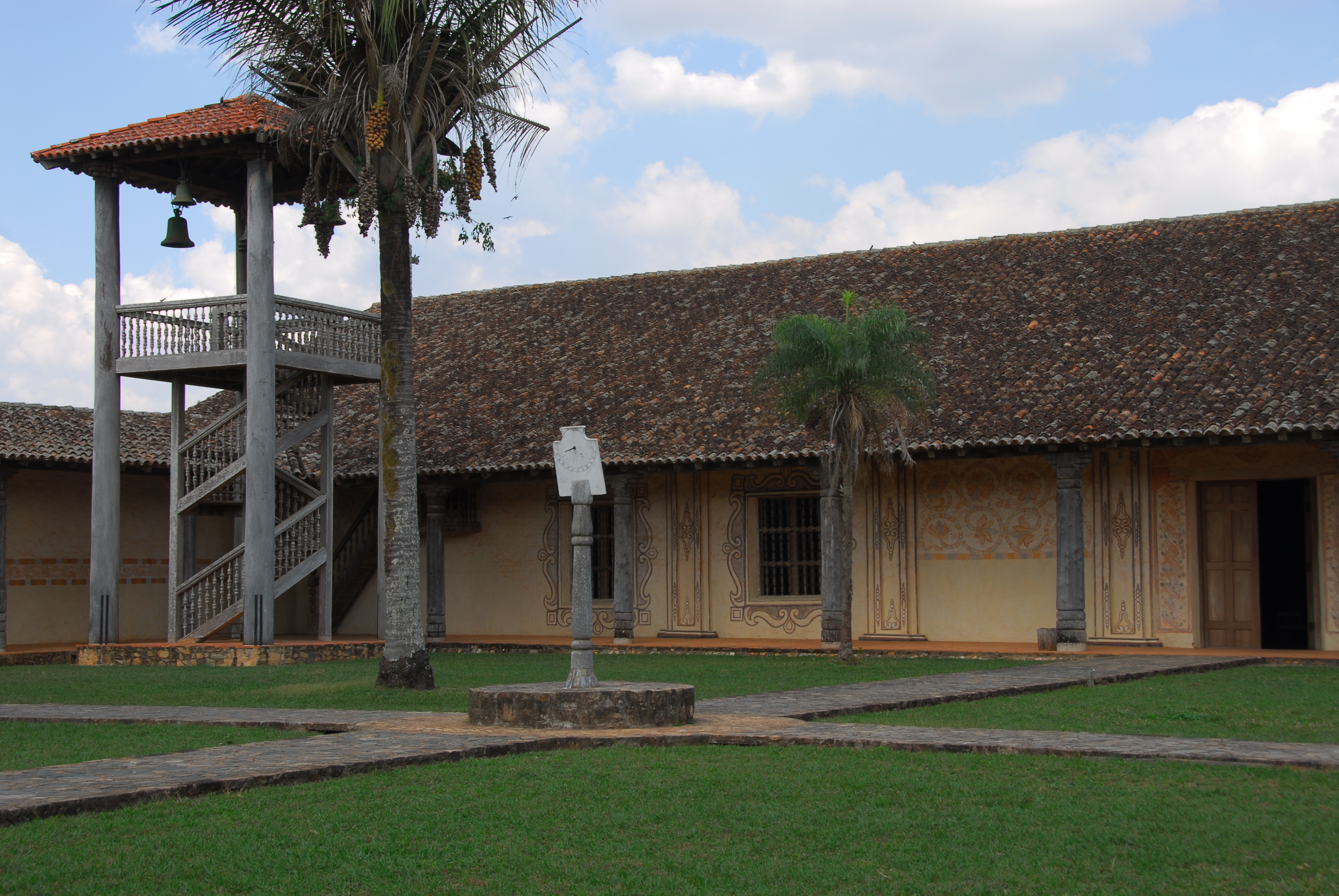 Courtyard of the church in San Javier, Ñuflo de Chávez, Santa Cruz, Bolivia with sundial and bell tower. Part of the Jesuit Missions of the Chiquitos World Heritage Site.